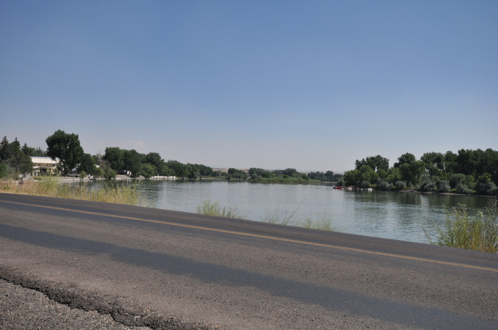 Great Falls Portage; this picture is of the White Bear Island area, part of the upper end of the landmarked portage area.